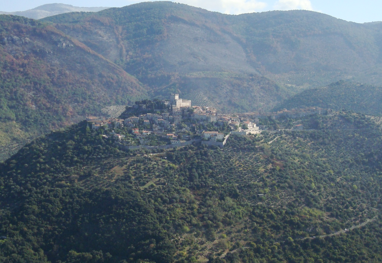 Sermoneta in a photo from above.